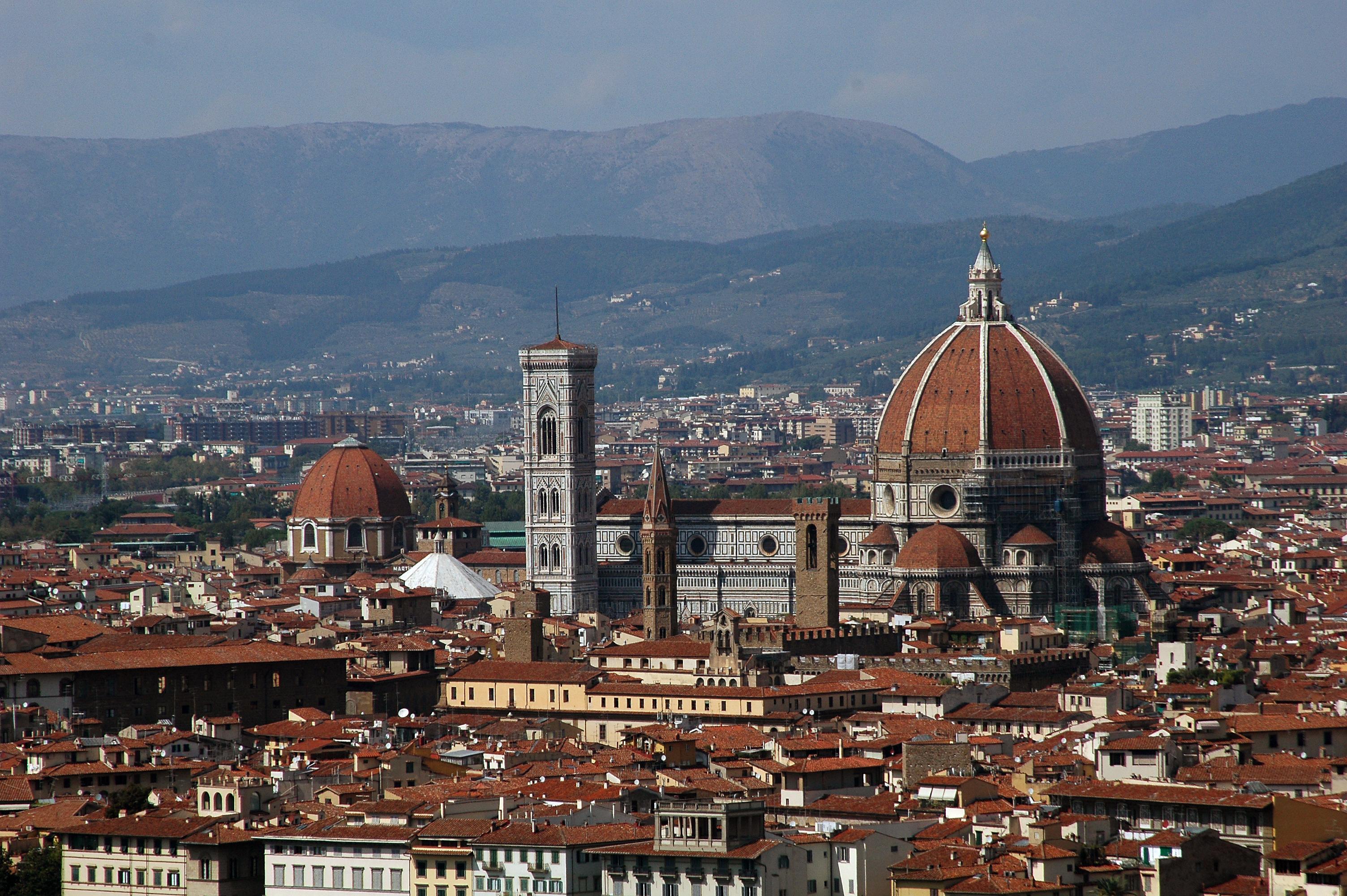 Florence and Santa Maria del Fiore